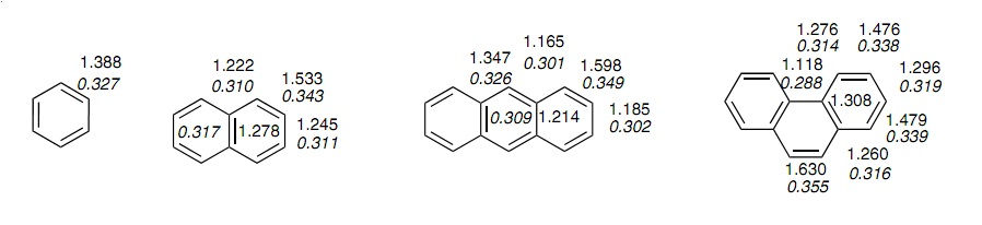 Values ​​of electron density and ellipticity for some rings fused